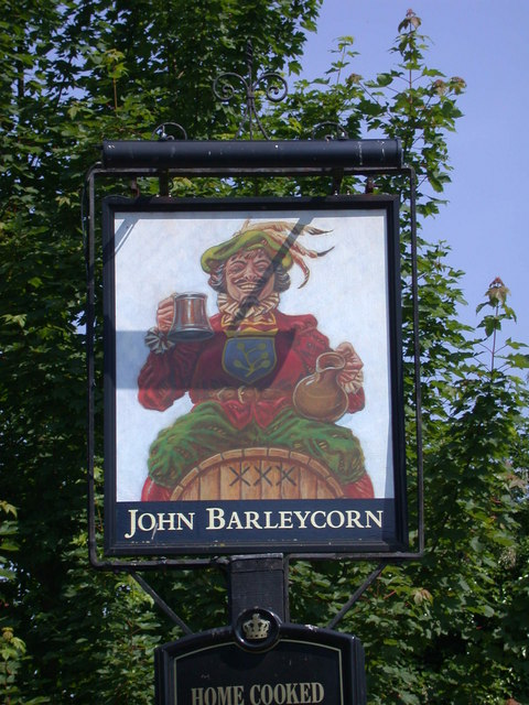 John Barleycorn - sign "They have worked their will on John Barleycorn But he lived to tell the tale, For they pour him out of an old brown jug And they call him home brewed ale." (Steeleye Span version) My GPS really does tell me that the grid line runs between the sign and the pub 758286